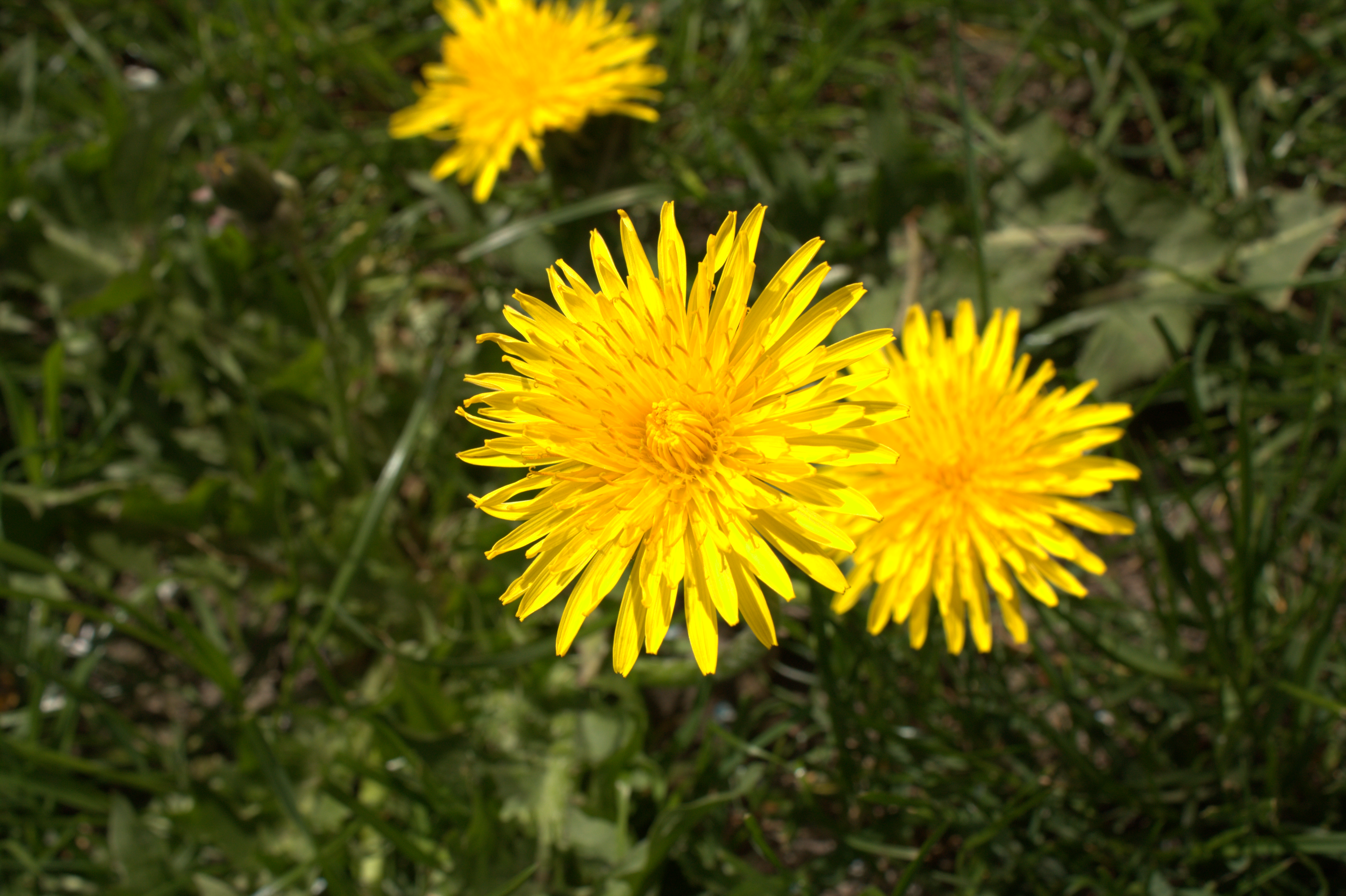 Picture of a simple Taraxacum. It was taken in Thisted, Denmark.